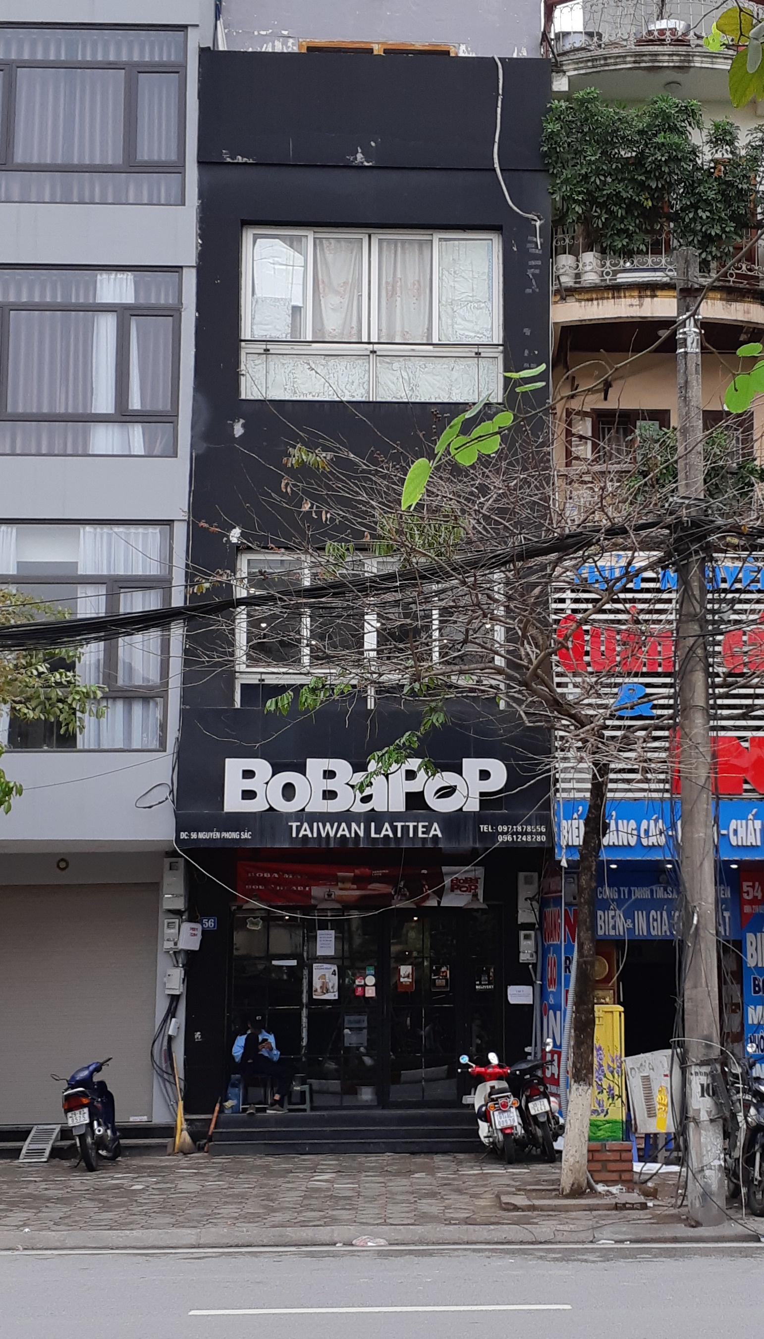 BoBaPop shop, located at 56 Nguyen Phong Sac Road, Dich Vong Hau Ward, Cau Giay District, Hanoi, Vietnam.